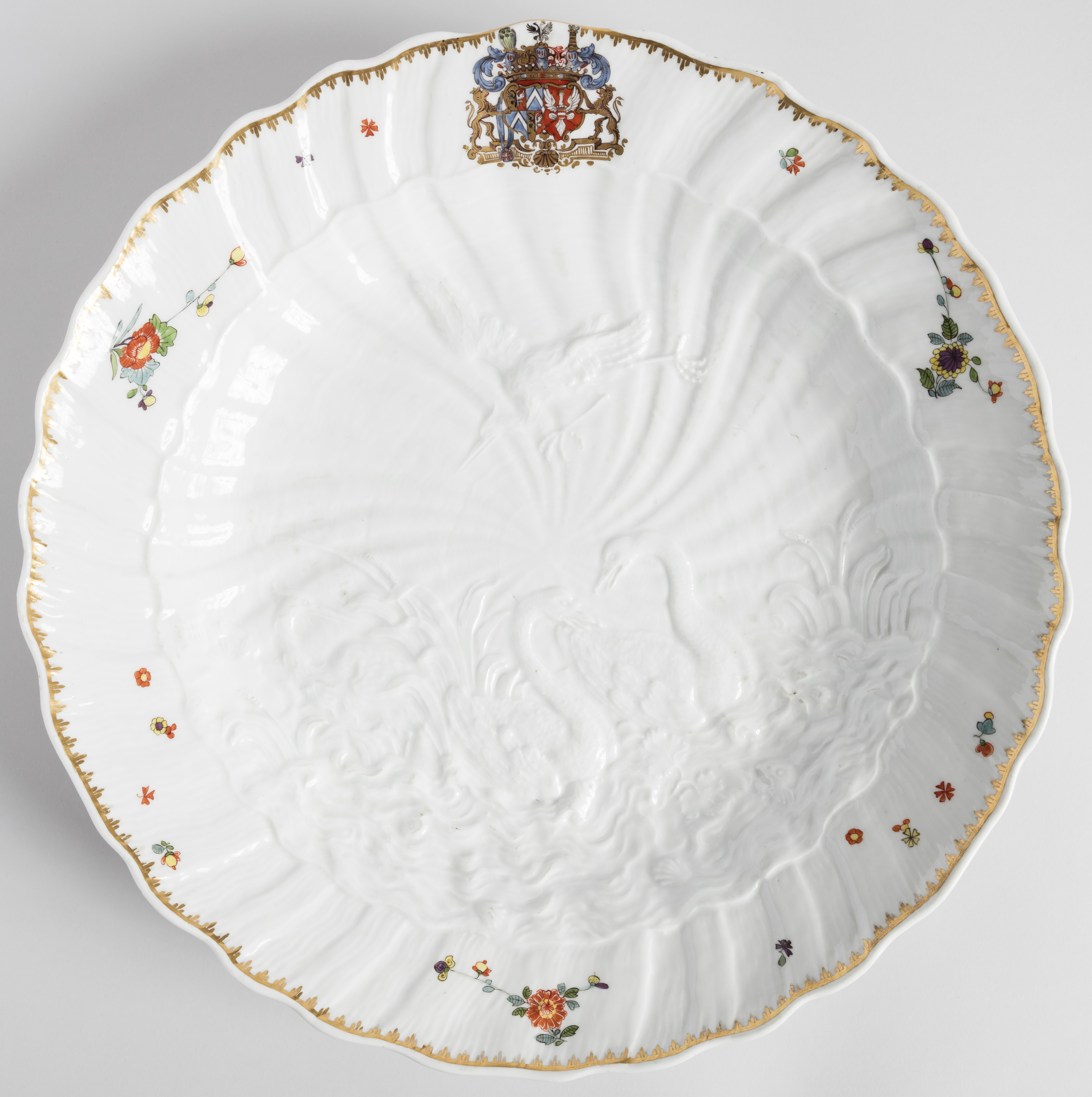 Molded with two swans swimming in rough water among fish and shells and flanked by bulrushes, a heron wading with a fish in its beak another in flight above, on a spiral shell-mounted ground. Decorated with a gilt rim and a large coat-of-armor at the top beneath border.